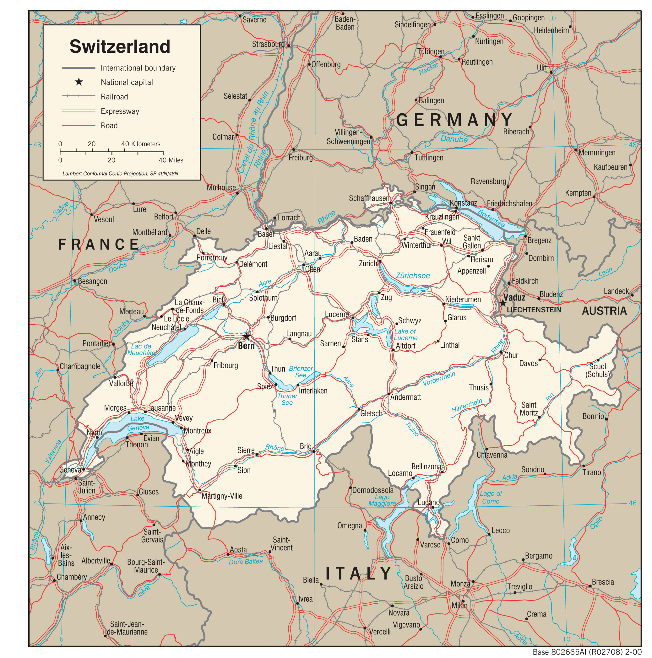 Transport system in Switzerland, 2000.